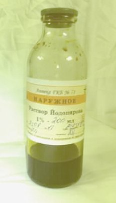 Bottle of idopiron solution.